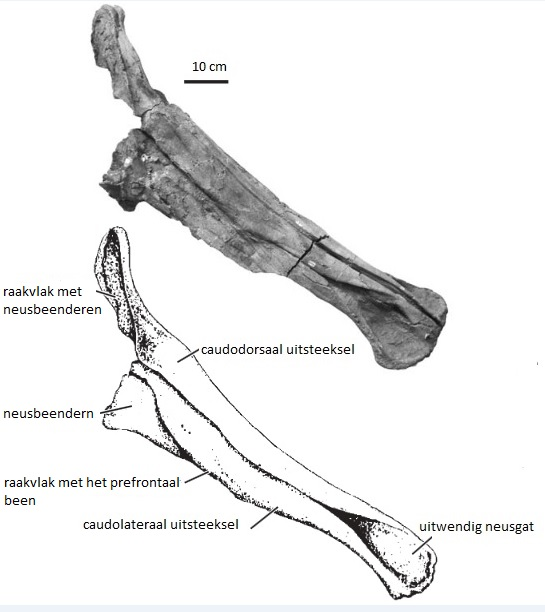 Photograph and drawing of right premaxilla and rostral portion of right nasal of Olorotitan arharensis Godefroit, Bolotsky & Alifanov, 2003 (AEHM 2-495, holotype). Upper Cretaceous of Kundur, Russia